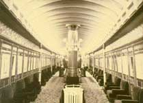 An interior view of the Palace Steamer, Niagara. The Niagara was built in 1846, and caught fire and sank in Lake Michigan off Belgium, Wisconsin, in 1856. The wreck site is a Registered Historic Place.